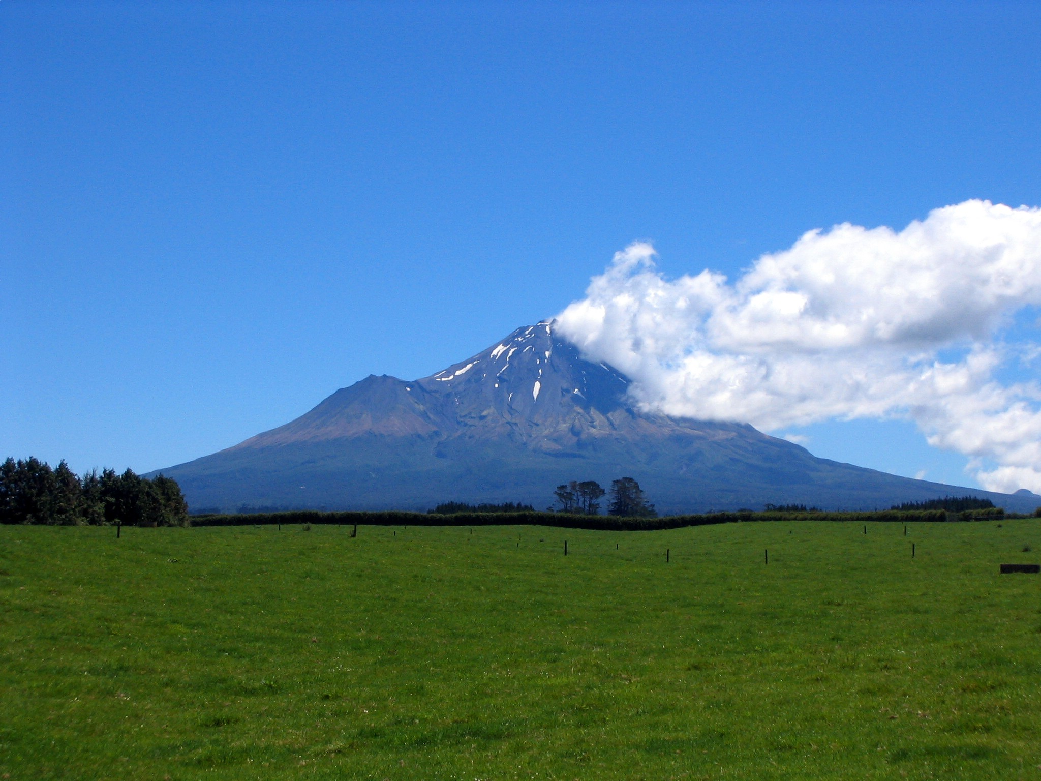 In the Maori language Taranaki means ‘Gliding Peak', a name that ties it to the legend of how it came to be in its current location. Unrequited love saw Taranaki move from the central plateau, carving the Whanganui River in the process and filling the channel with his tears.